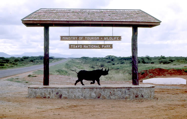 The Bachuma Gate entrance of Tsavo East National Park, Kenya